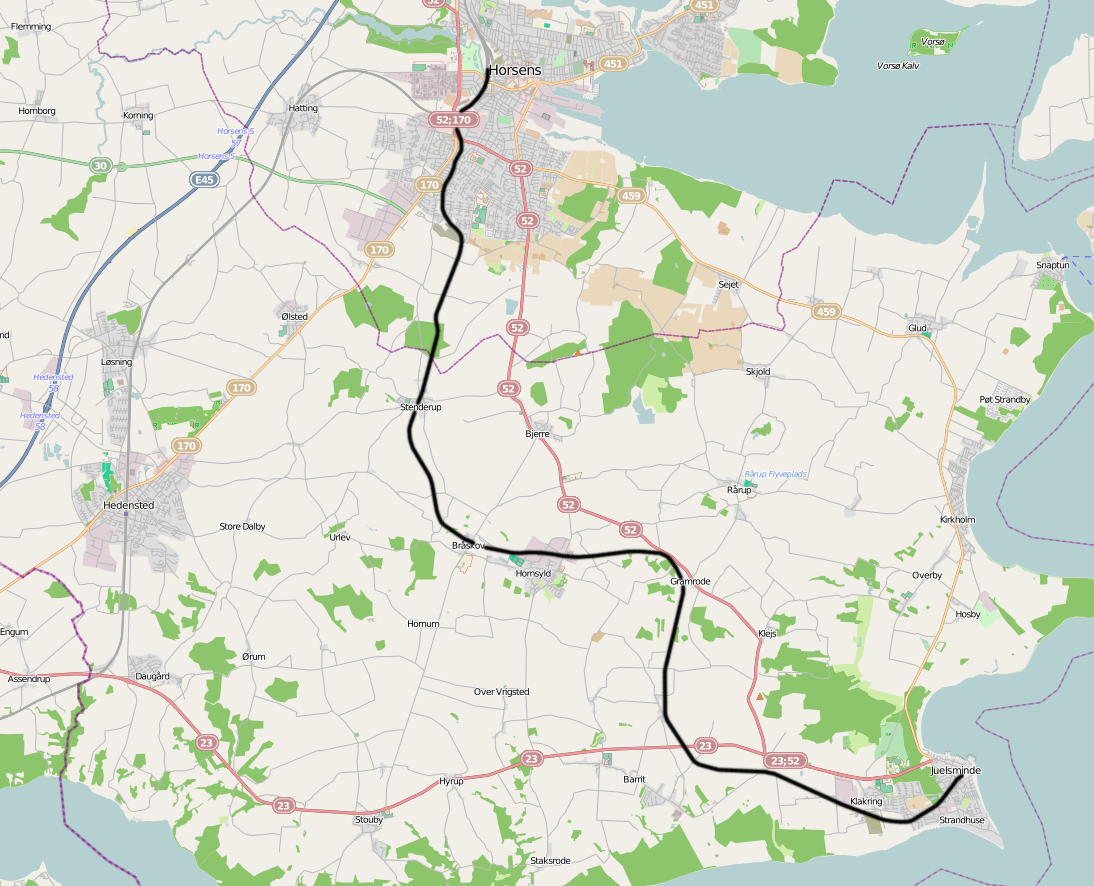 Railway line Horsens - Juelsminde